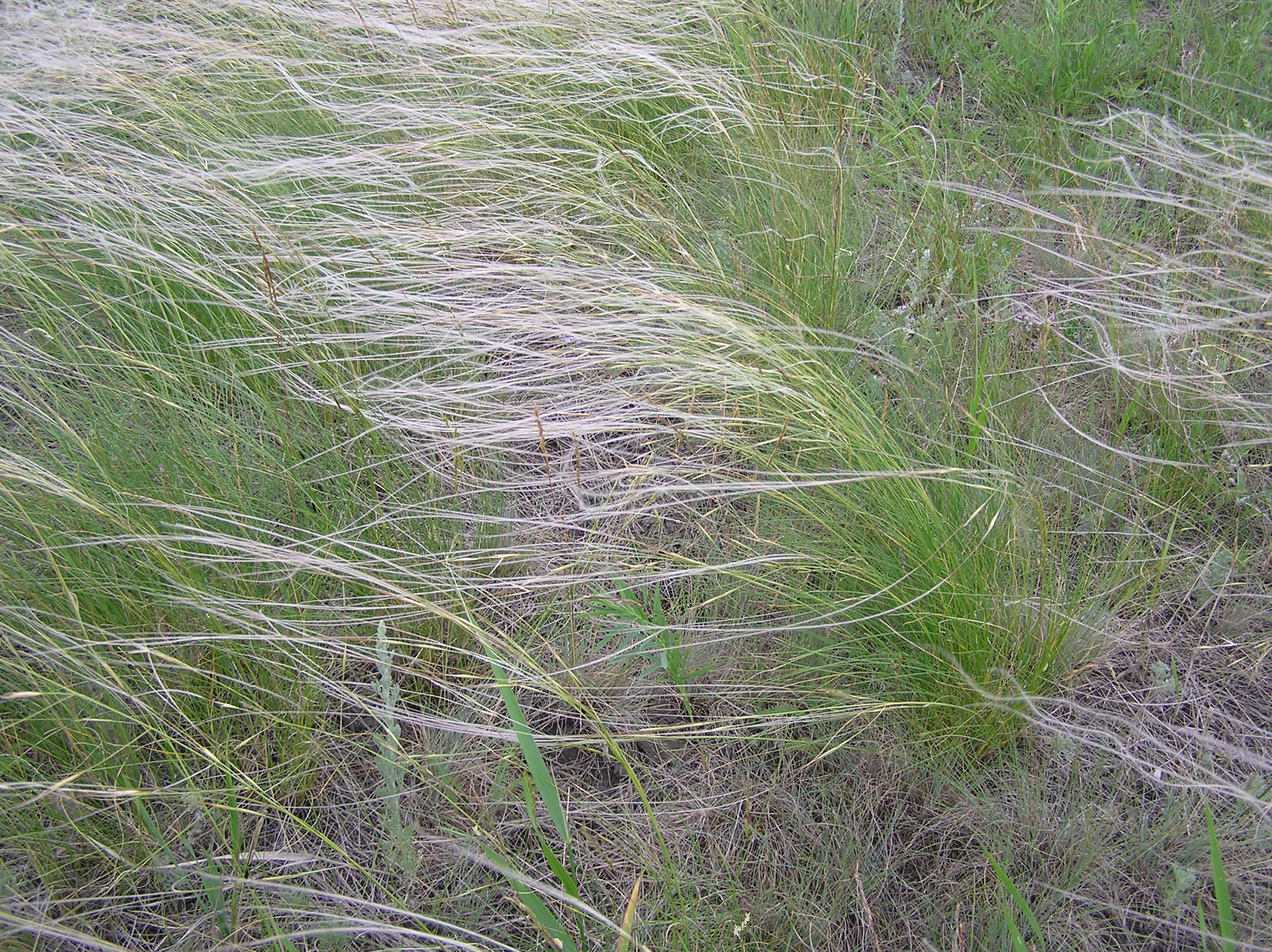 Stipa lessingiana Trin. & Rupr., habitus. Habitat: steppe. Vicinity of Saratov city, Russia.